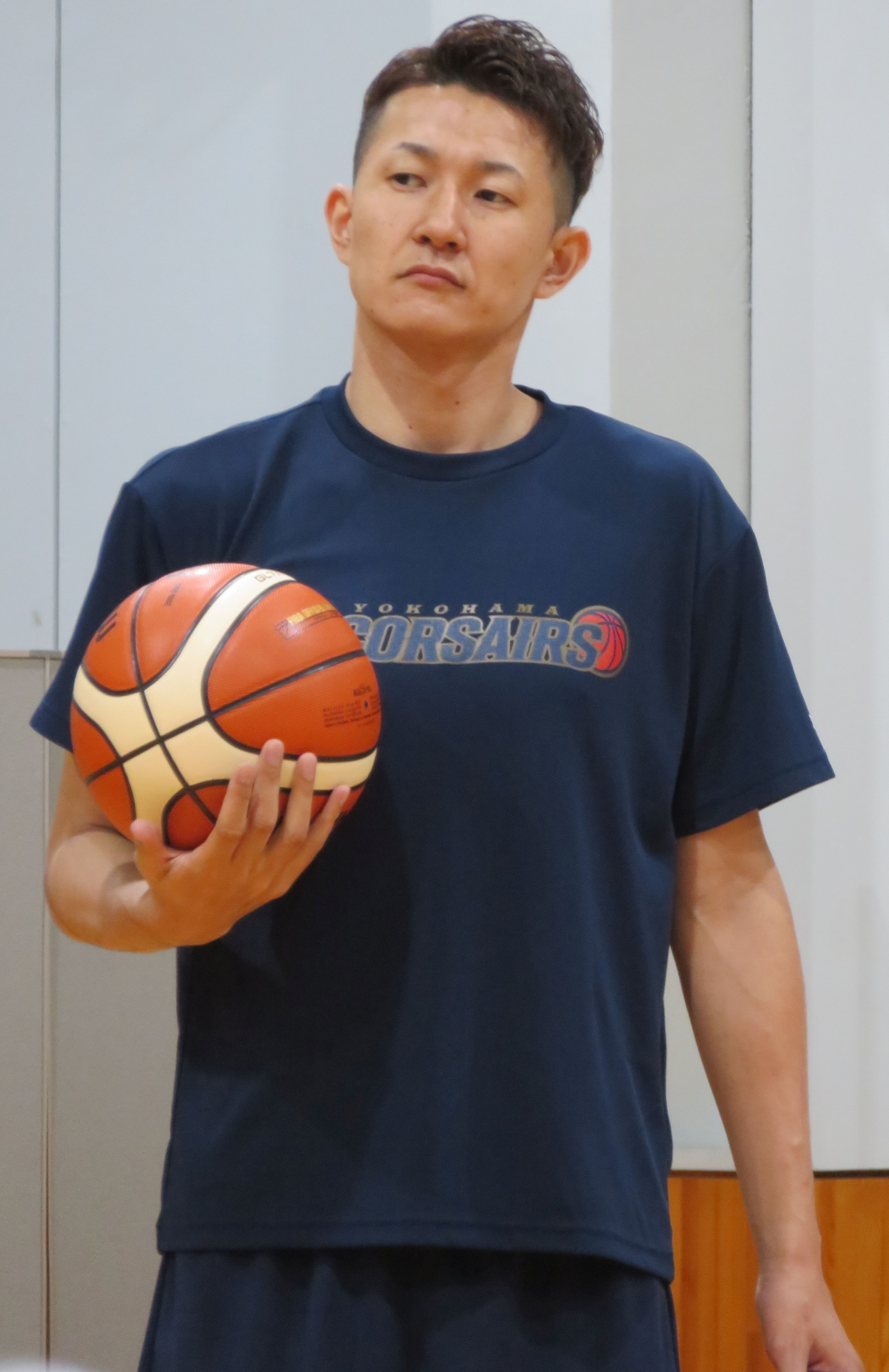 Yokohama B-Corsairs Fan Event 2019-5-19